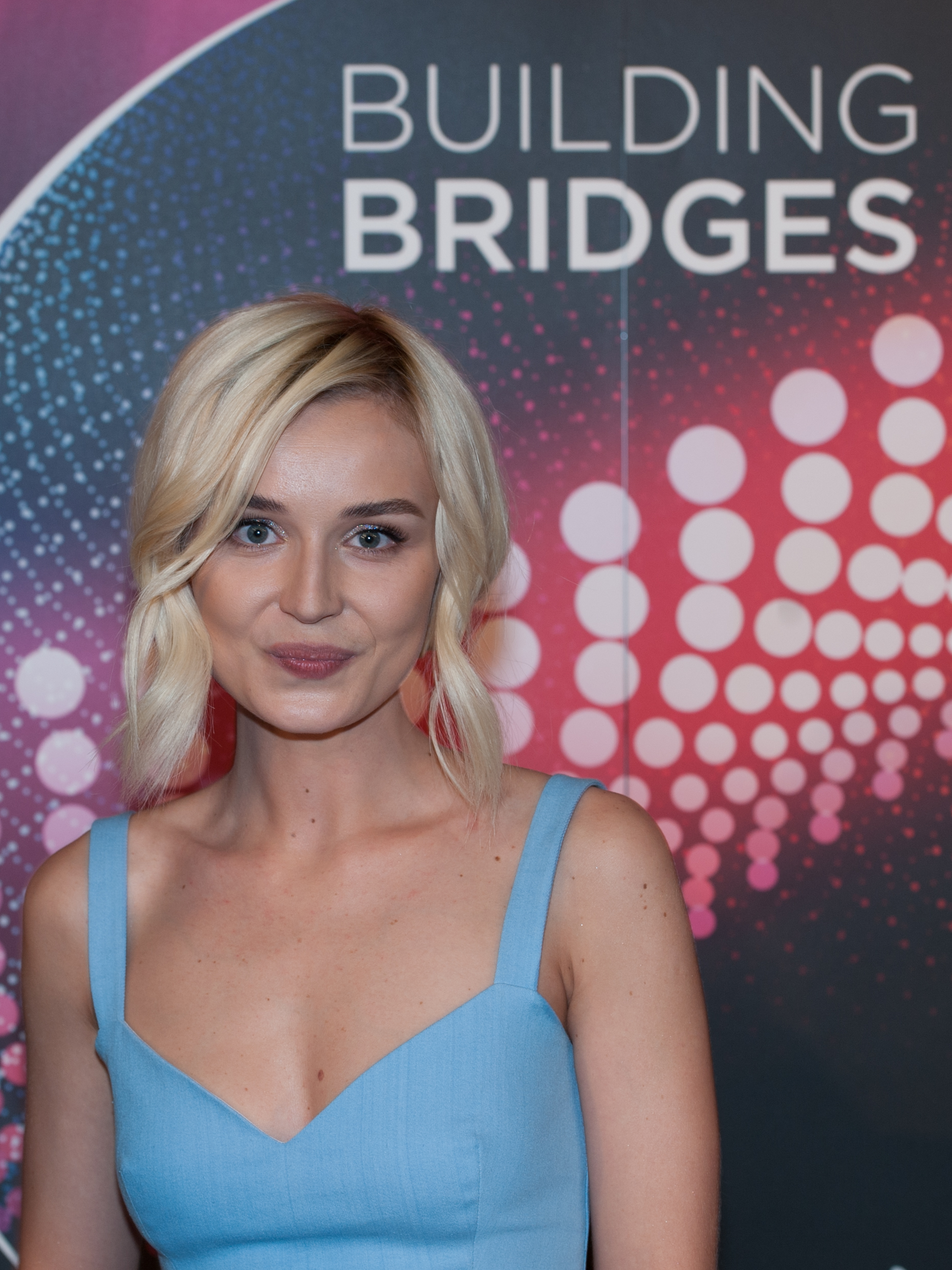 Eurovision Song Contest Vienna 2015: Polina Gagarina